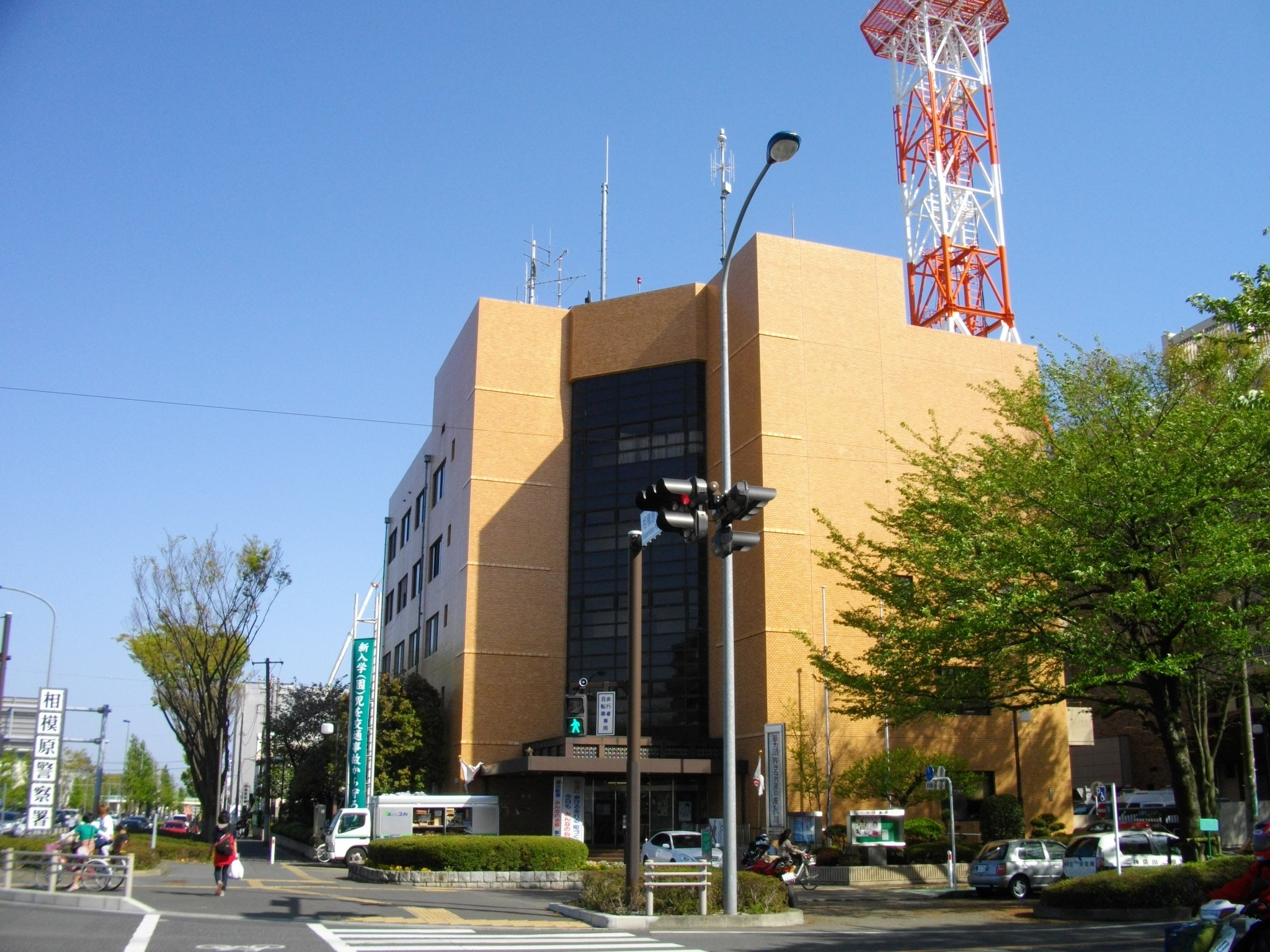 Sagamihara Police Station